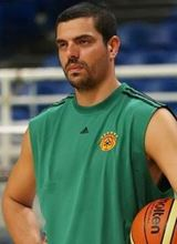 Kostas Tsartsaris training during his last season in Panathinaikos.